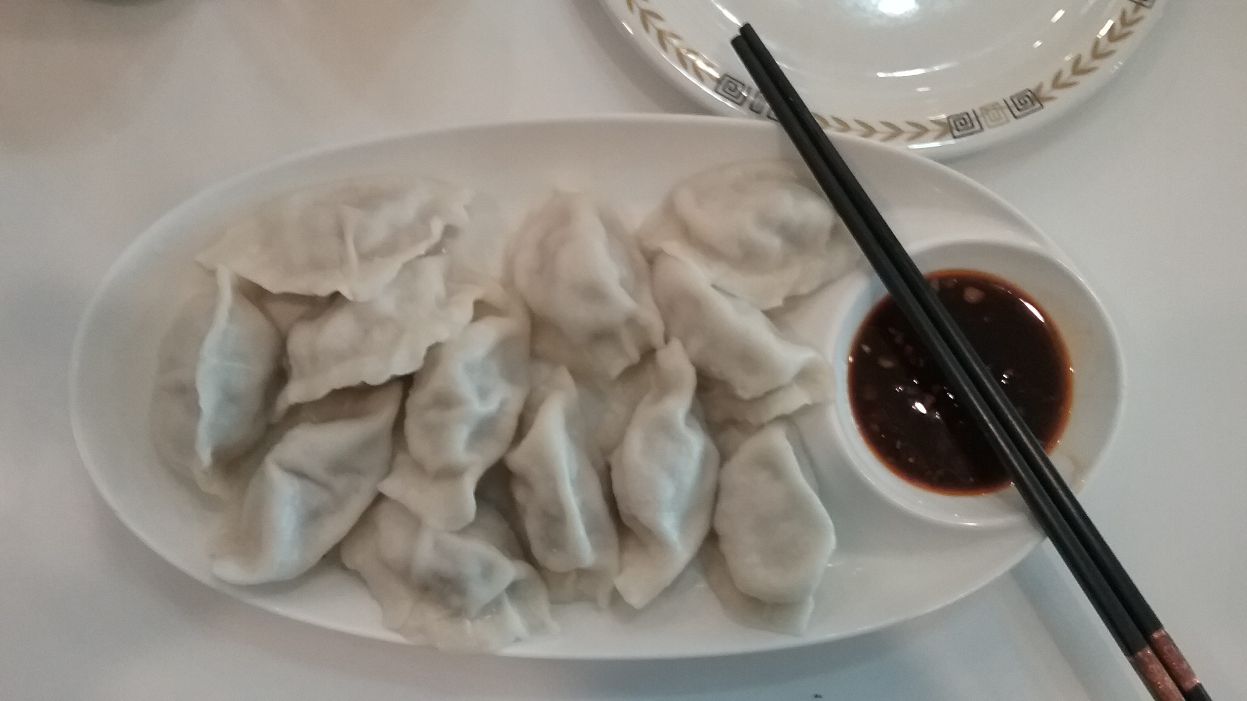 Pork & Napa Cabbage Dumplings (猪肉白菜饺子i) from Little Fat Dumpling Chinese Restaurant, at Fresno, California